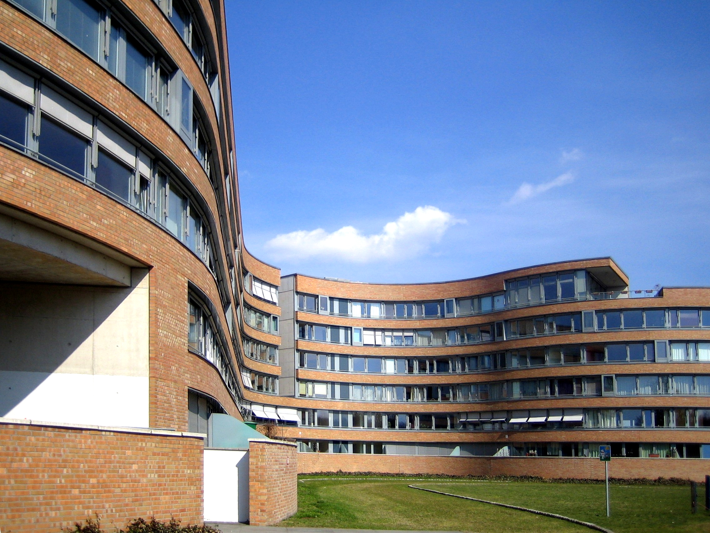 Berlin, Moabiter Werder. Domestic architecture.